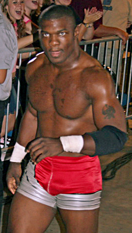 Shelton Benjamin makes his entrance on a WWE house show held in Kitchener, Ontario, Canada on August 12, 2005.